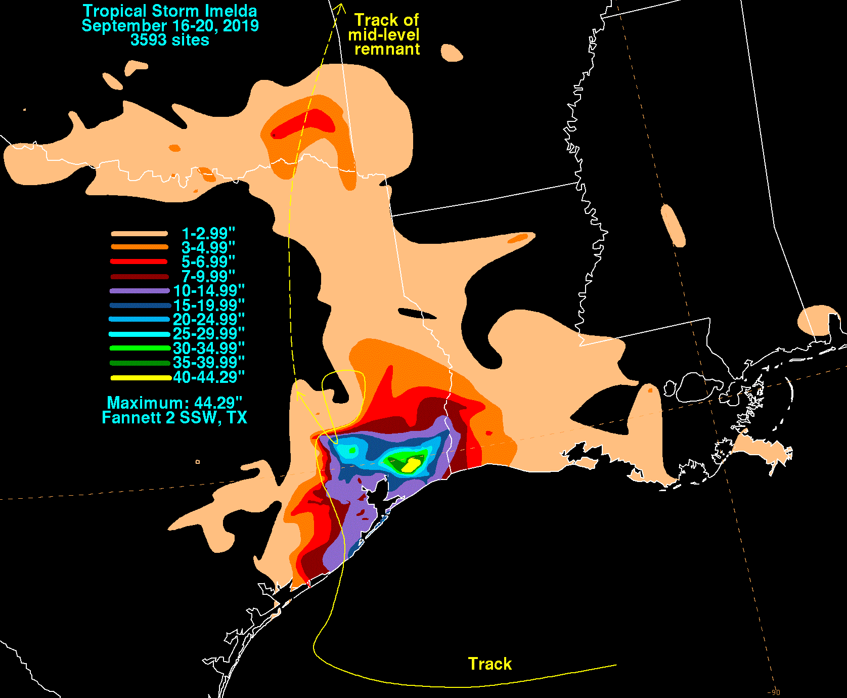 Map of rainfall accumulations from Tropical Storm Imelda in 2019 across the Southern United States